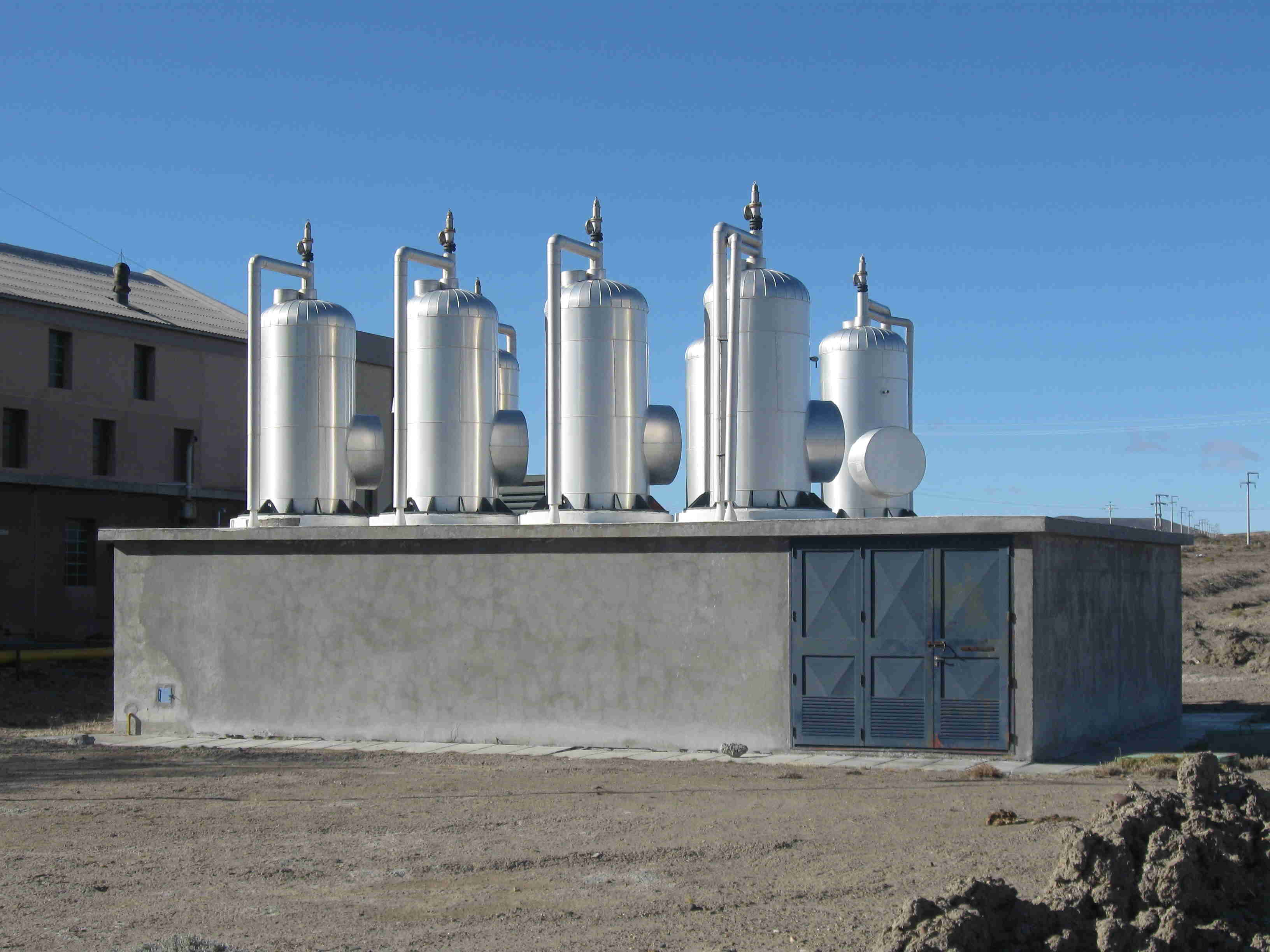 Sistema antiariete del Acueducto Nuevo en Valle Hermoso